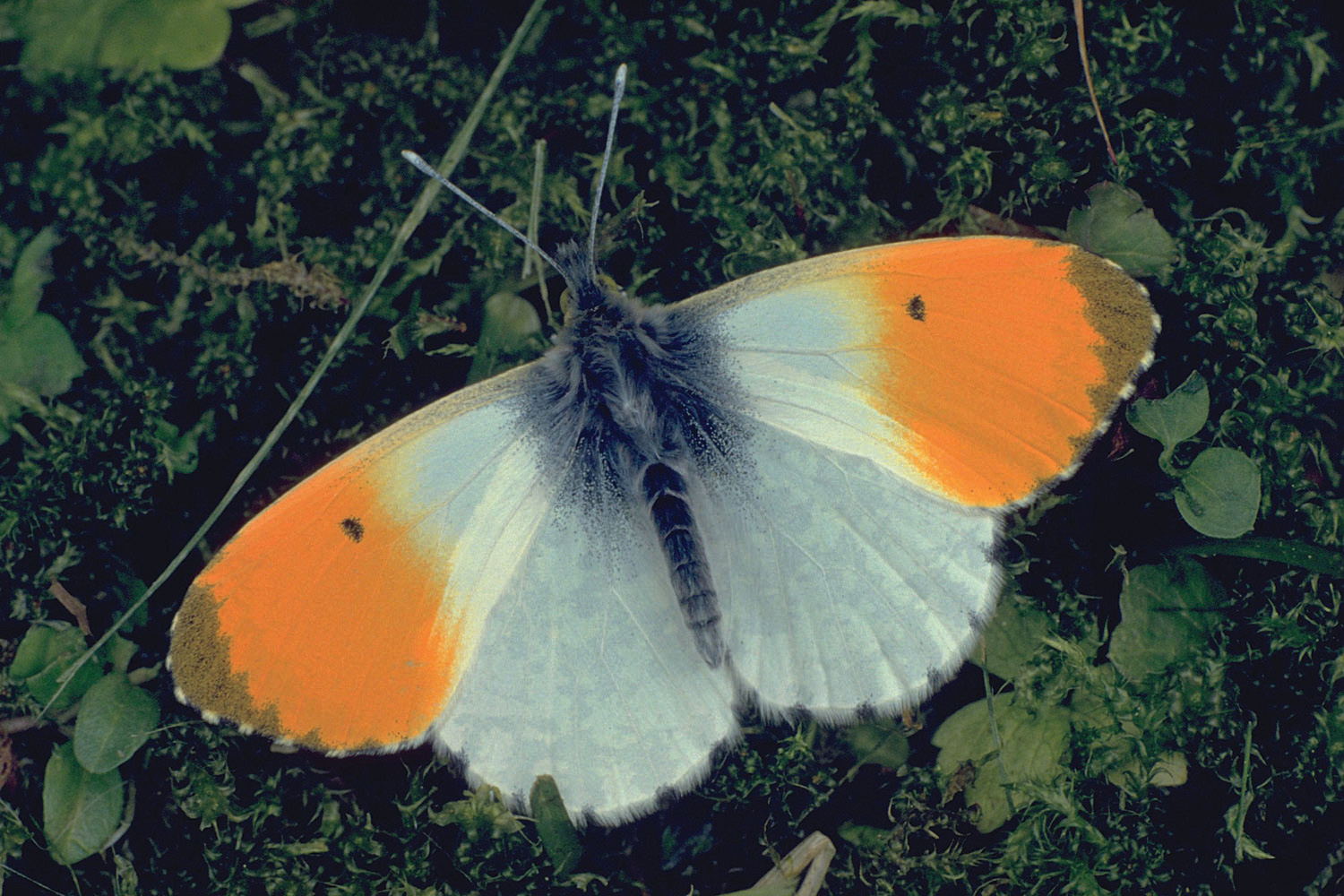 Male Orange Tip (Anthocharis cardamines)